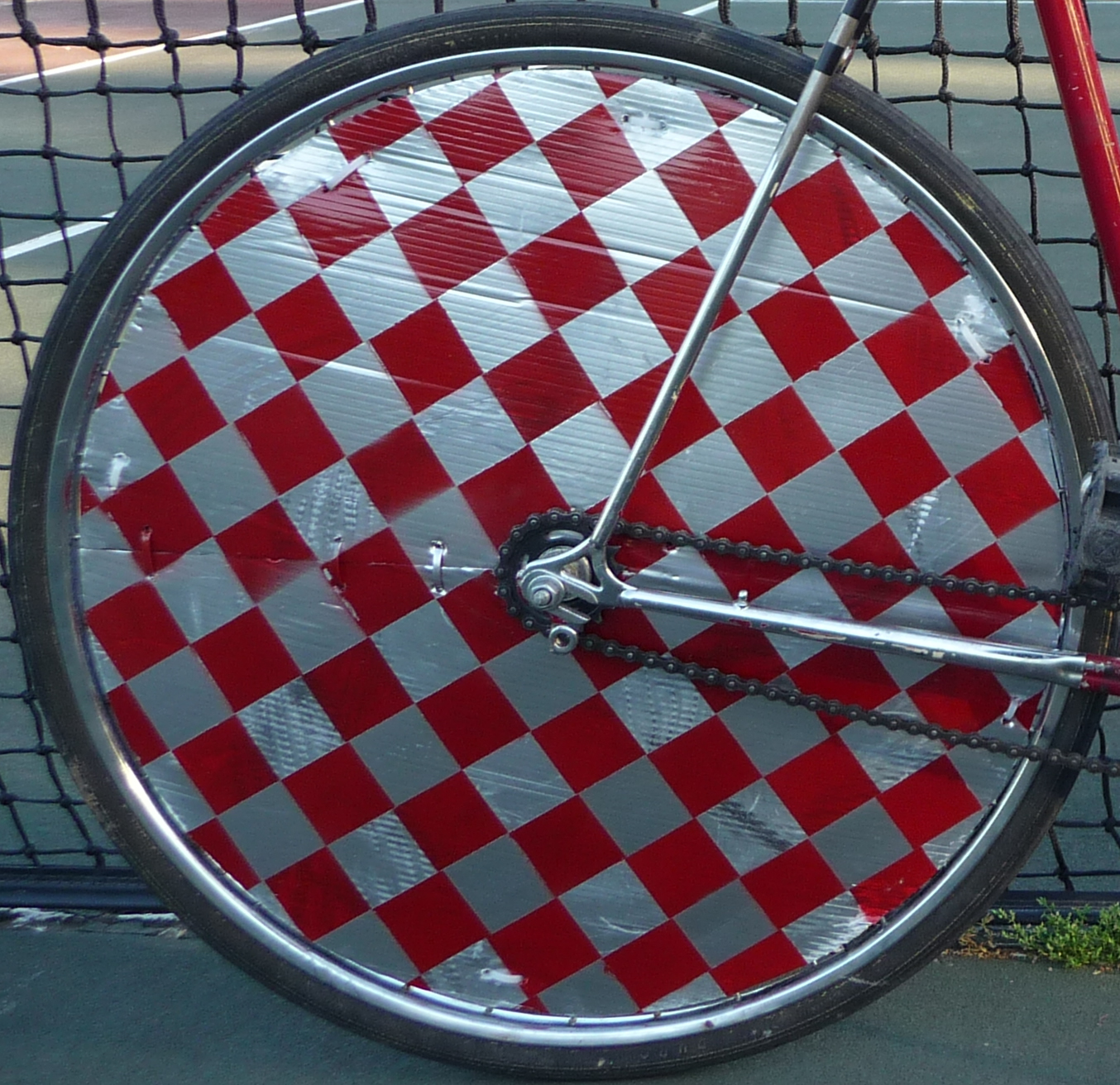 Typical wheel cover for hardcourt bike polo